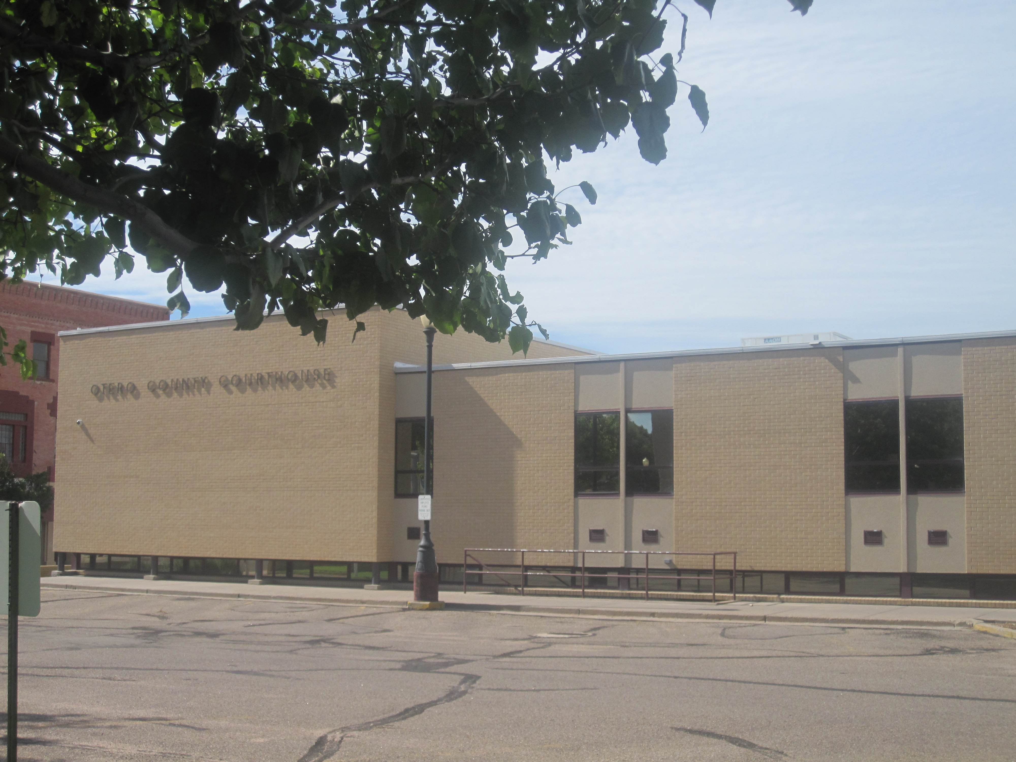 I took photo with Canon camera in La Junta, CO.